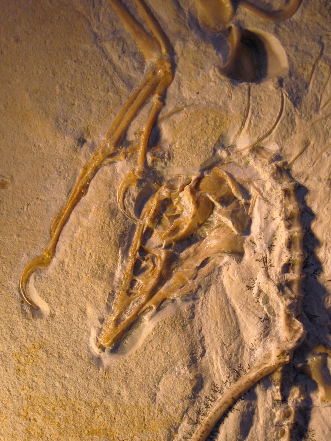 Archaeopteryx lithographica, detail of the Thermopolis specimen as displayed on the Munich Mineral Show 2009. (This image shows the original fossil - not a cast.) Amongst others details, the teeth and the three fingers of one wing, each with claws, are visible.